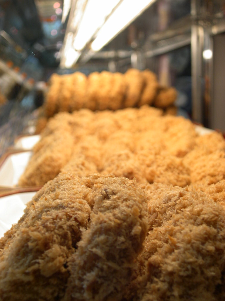 Korokke for sale at the Nihonbashi Mitsukoshi food hall in Tokyo, Japan.